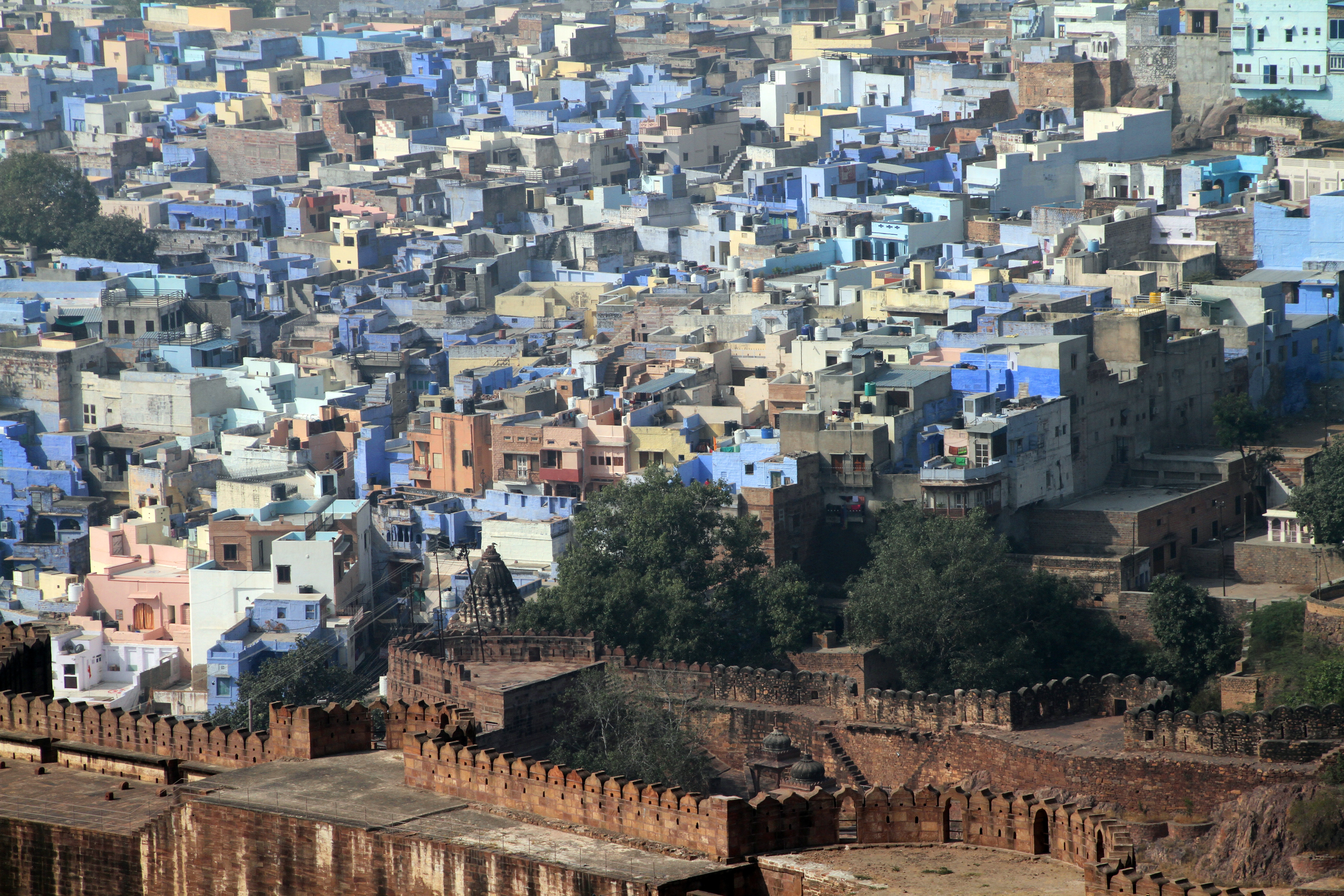 View from Mehrangarh Fort, Jodhpur